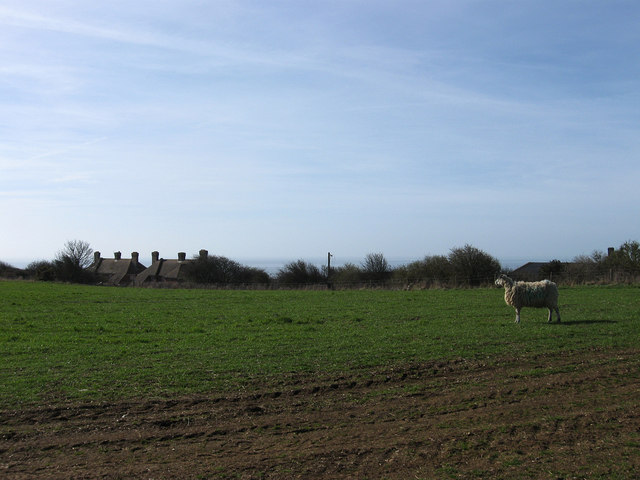 Balsdean Viewed from the bridleway that begins at Pickers Hill Farm. A couple of cottages and a farm are all that remains of a small hamlet based around two farms and populous and remote enough to gain its own chapel during the medieval period.